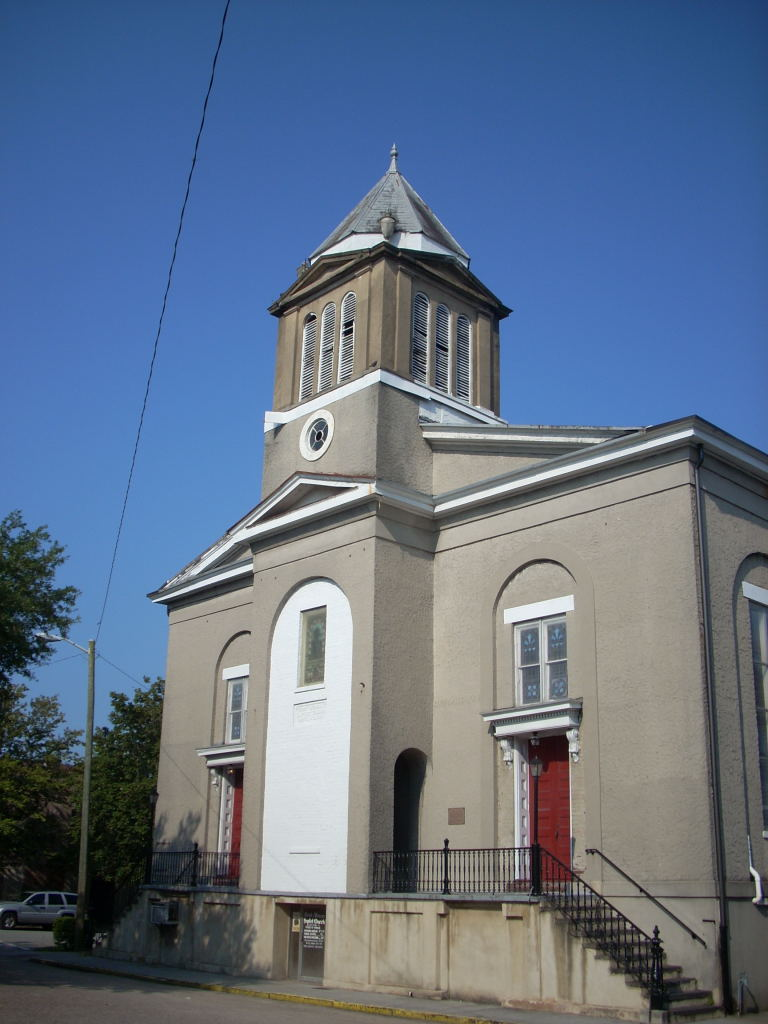 First African Baptist Church, Savannah (Chatham County, Georgia)